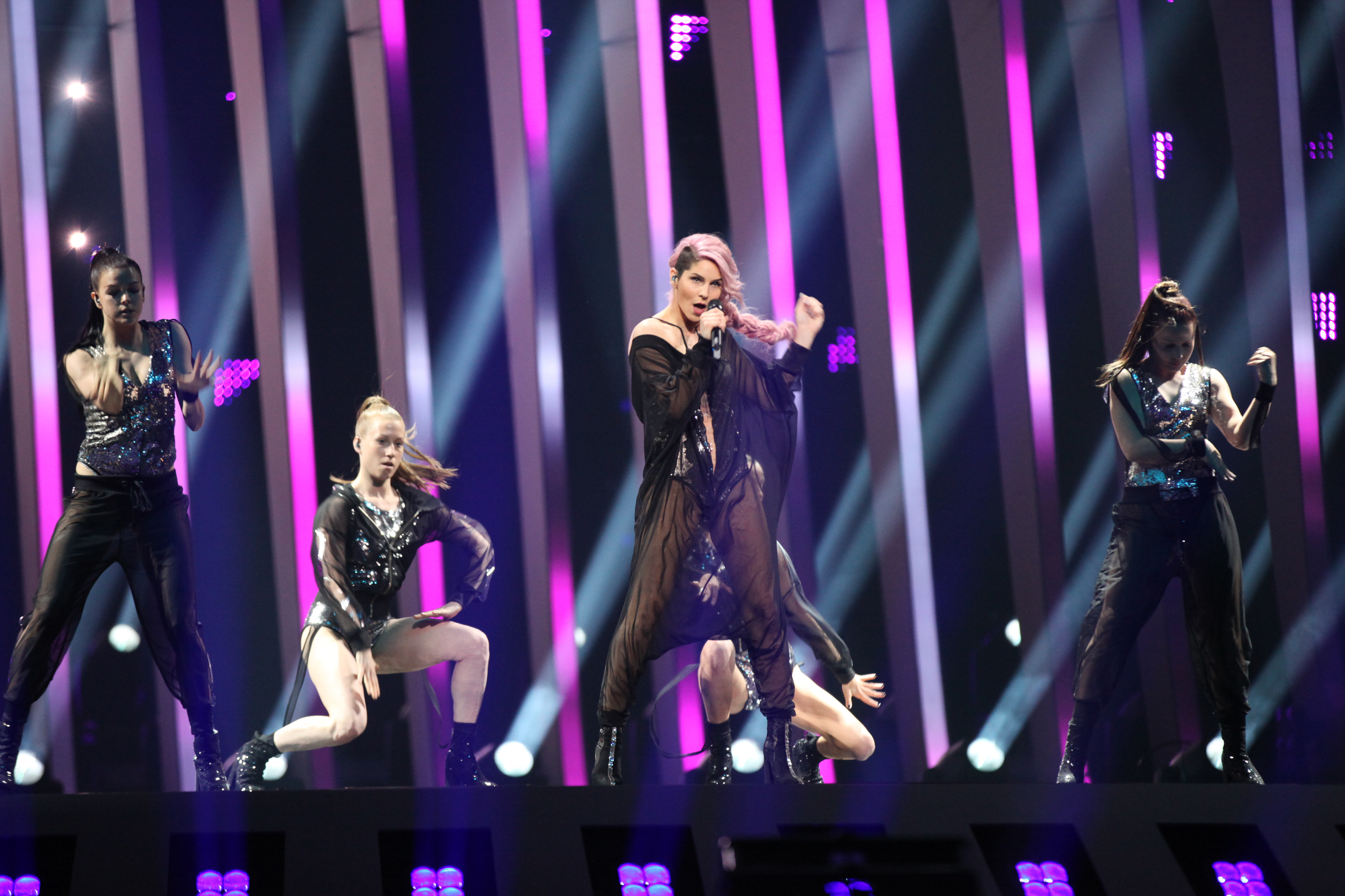 Lea Sirk representing Slovenia with the song "Hvala, ne!" during a rehearsal before the second semi final of the Eurovision Song Contest 2018 in Lisbon.